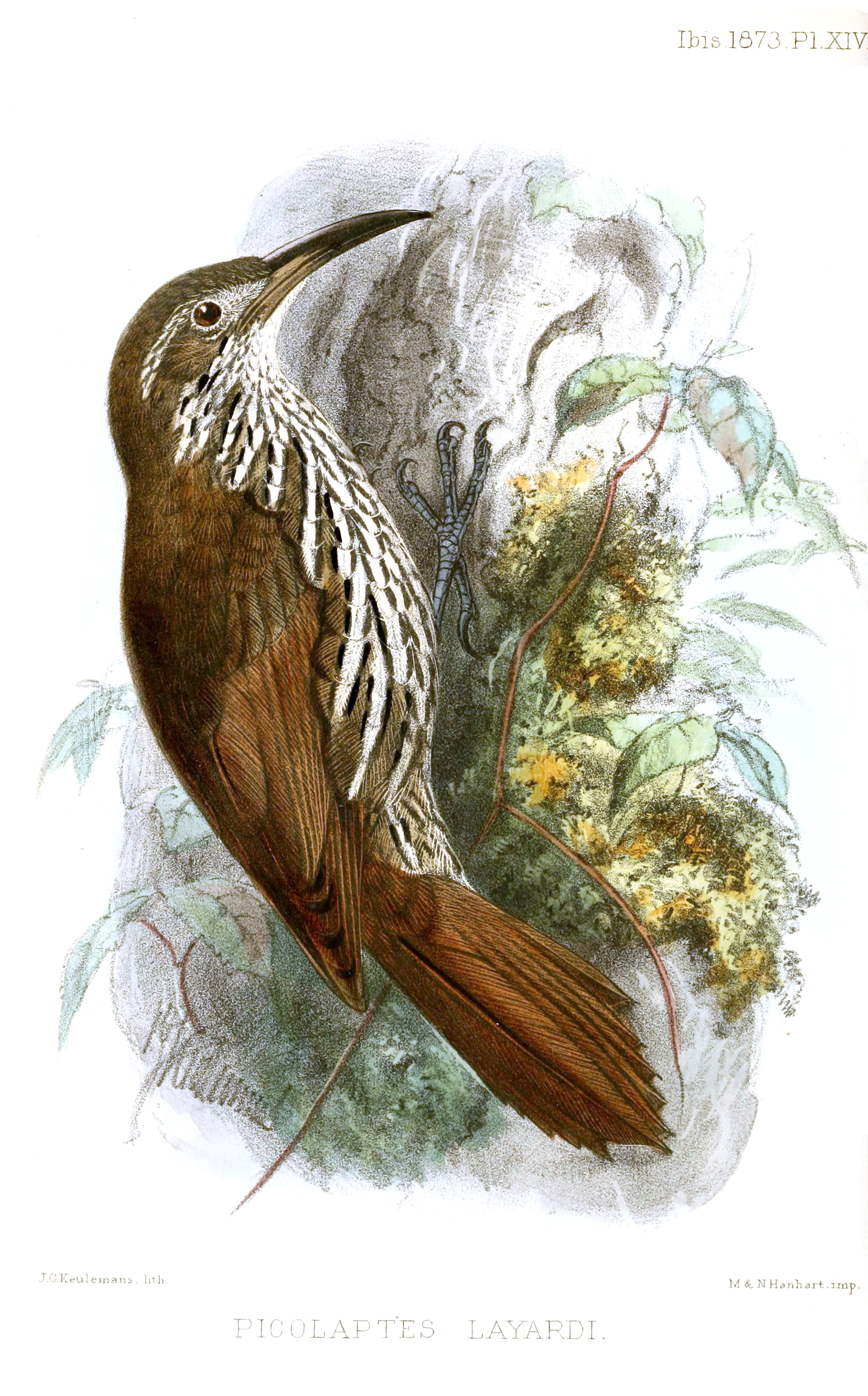 « Picolaptes layardi » = Lepidocolaptes albolineatus layardi (Subspecies of Lineated Woodcreeper)